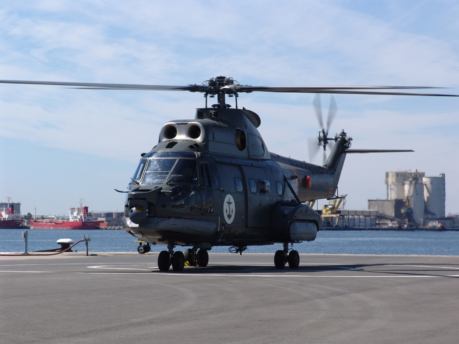 IAR 330 Puma Naval before the first flight.